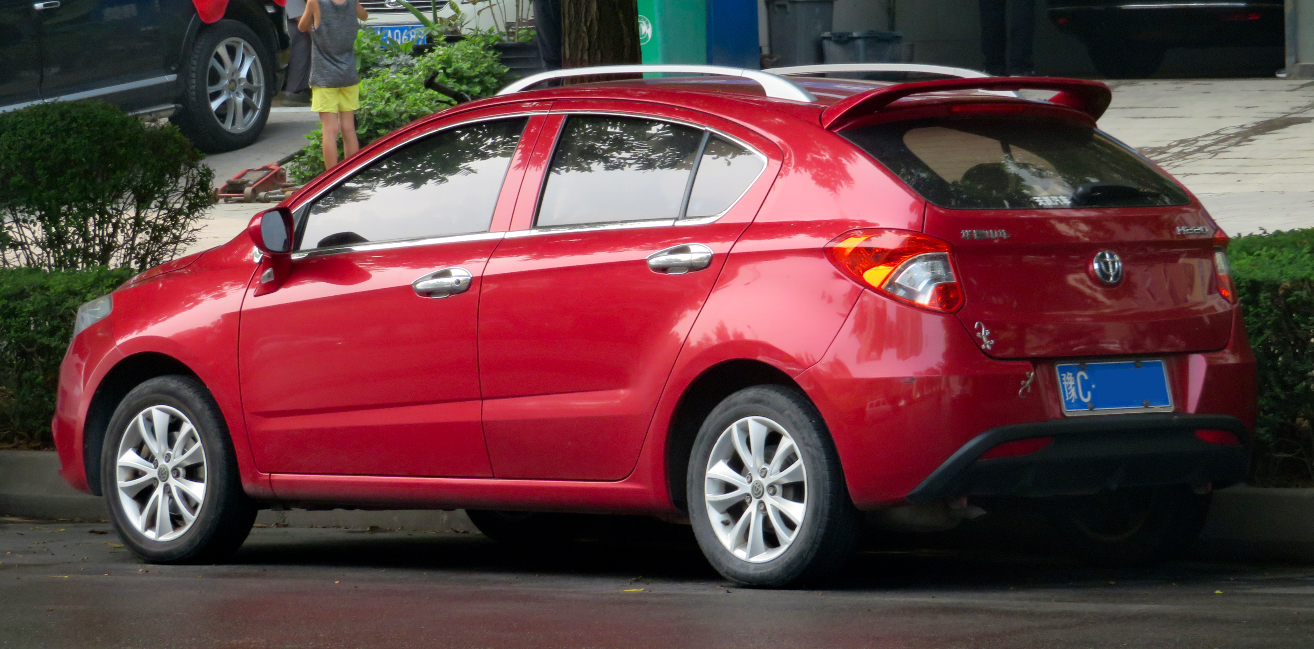 A 2016 Brilliance H220 hatchback photographed in Luoyang, Henan province, China